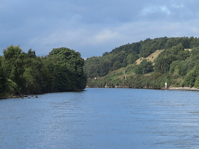 The Manchester Ship Canal by Mount Manisty, which is the mound formed by the earth excavated during the canal's construction. Mount Manisty takes its name from Edward Manisty, the engineer in charge of construction of the section of canal between Eastham and Ellesmere Port.